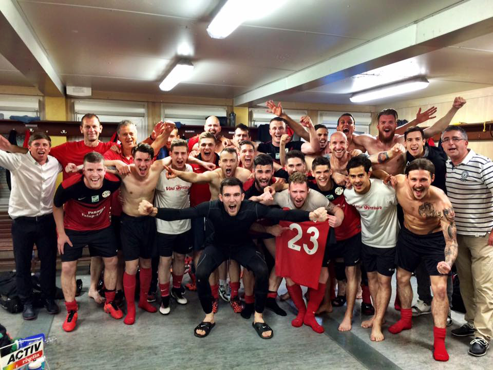 The team's last match as visitor in Budapest after their win 3-0